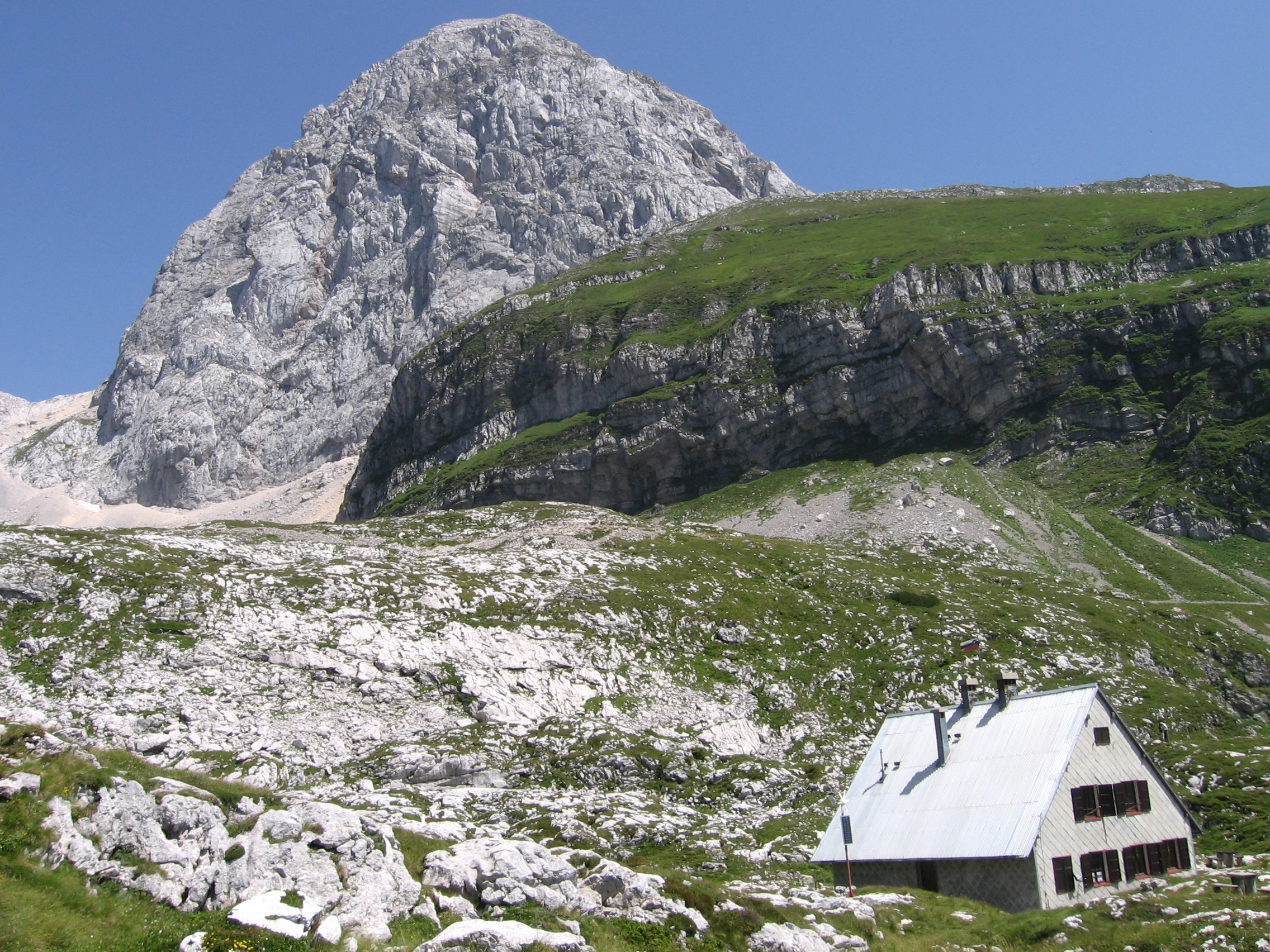 Hut on Mangrtsko sedlo (sattle) with mount Mangrt, Slovenia